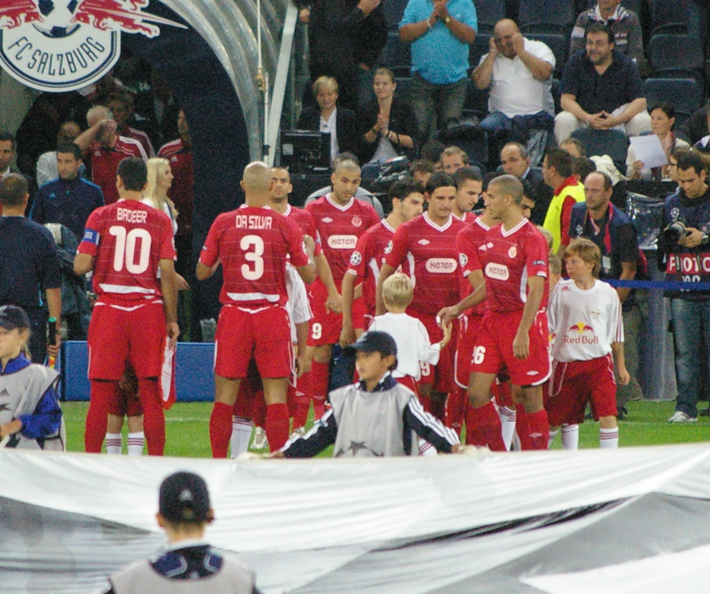 The squad before the quzalifiing match vs. FC Salzburg